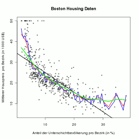 Nadaraya Watson estimator for different bandwidths (red, green, blue) and linear regression estimator.